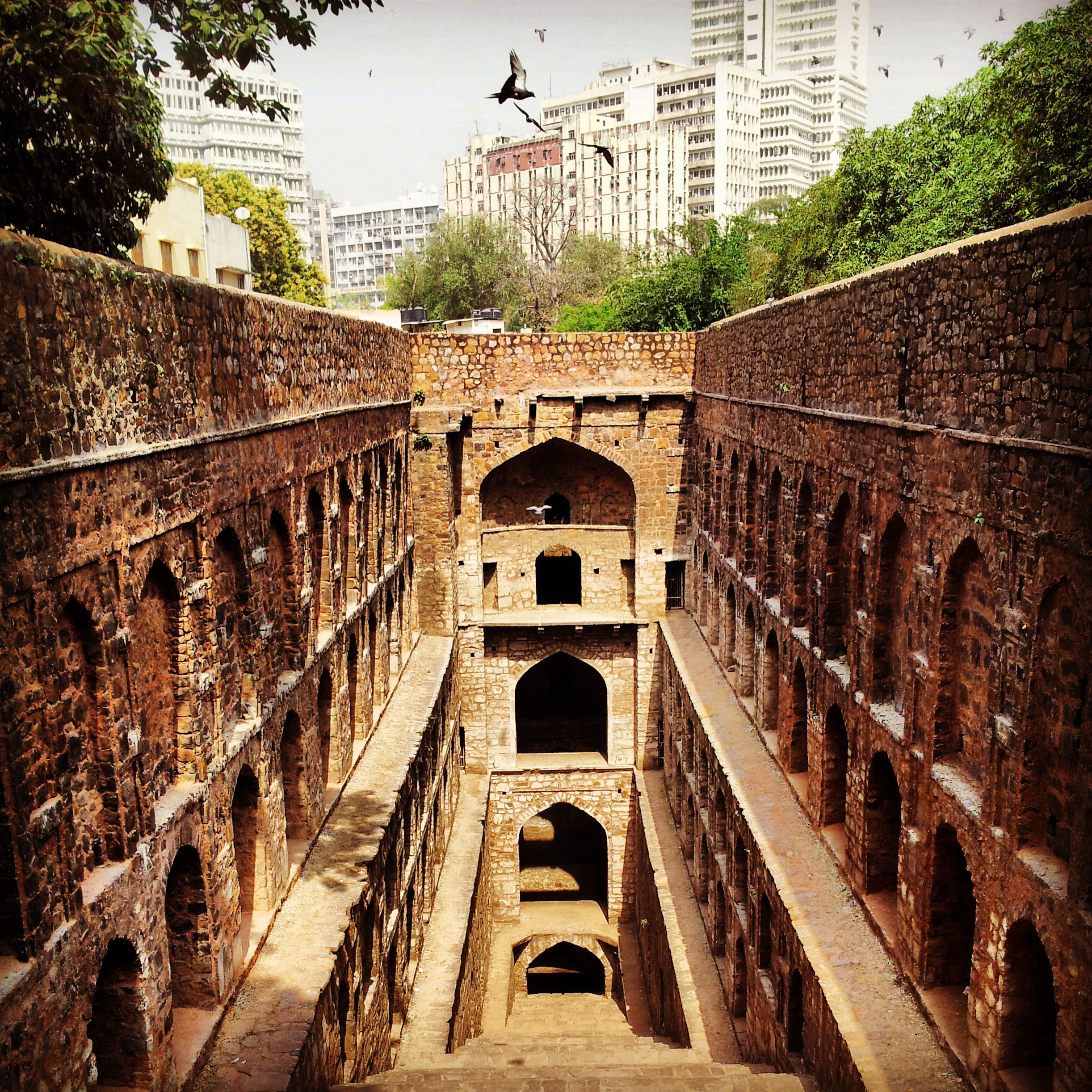 Underground ugrasen ki baoli hidden among buildings of barakhamba road, new delhi